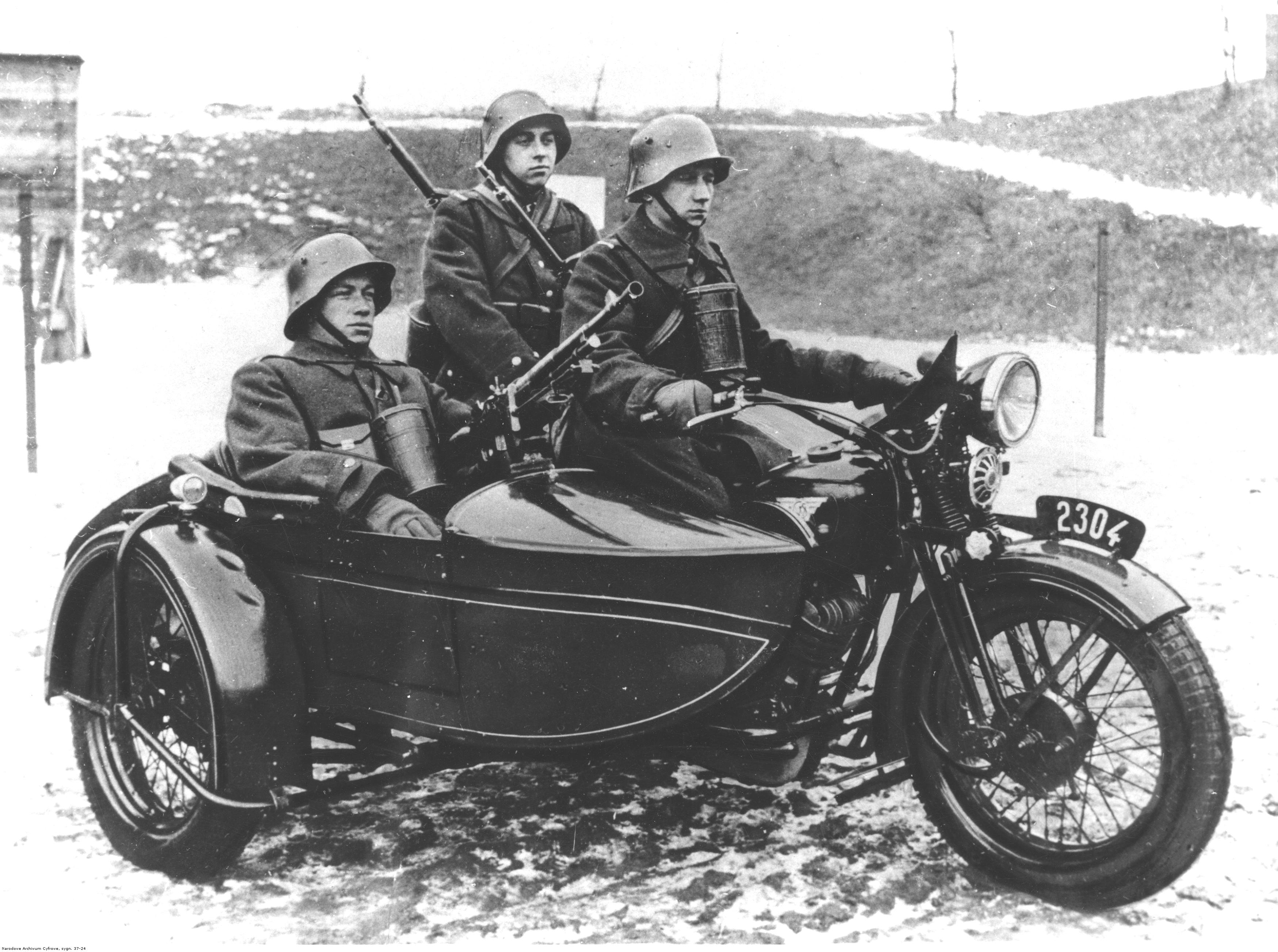 01938 10th Motorized Cavalry Brigade (Poland)